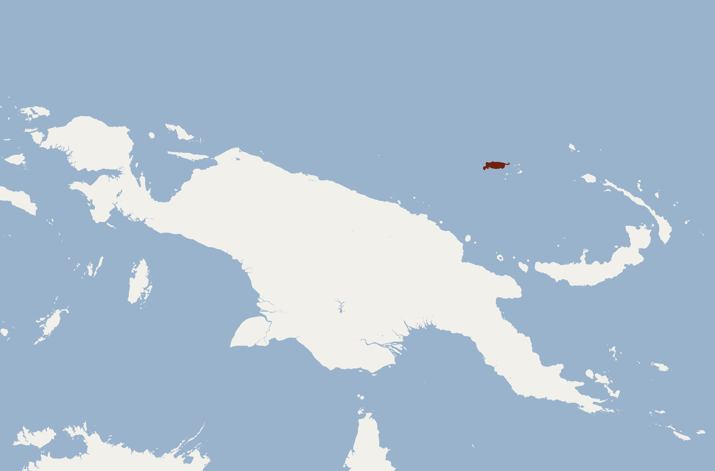 According to Timm & al., 2016